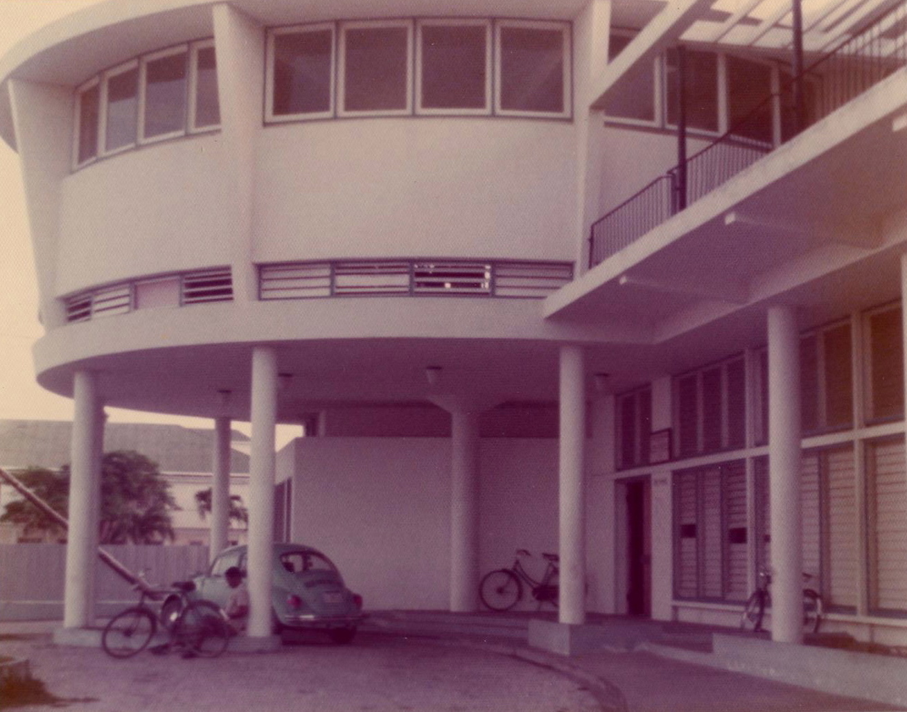 Belize City, 1975. Entrance to the Bliss Institute, which houses a museum, library, theater, and other facilities.